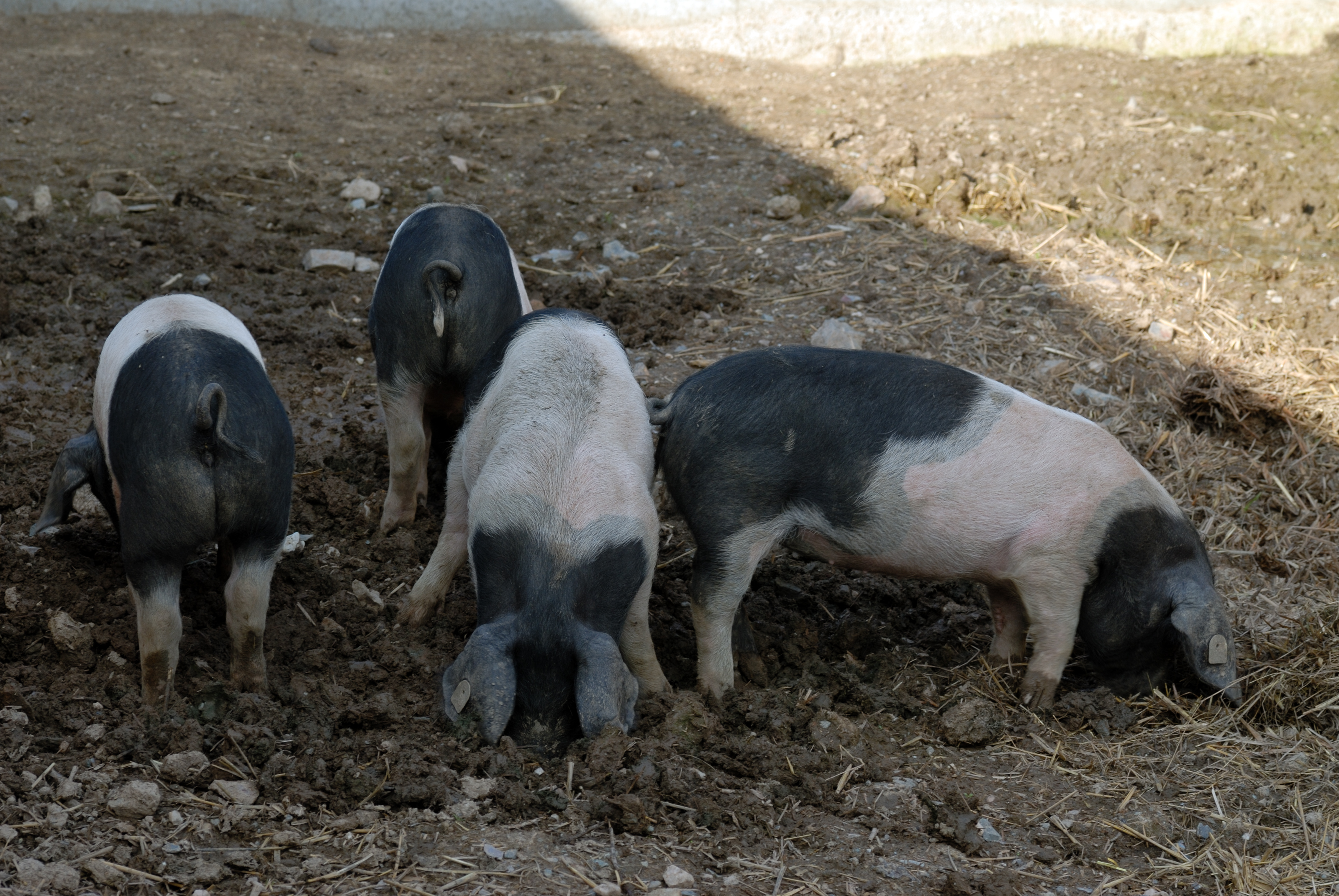 This image shows a few Angeln Saddlebacks, a rare breed of domestic pig.